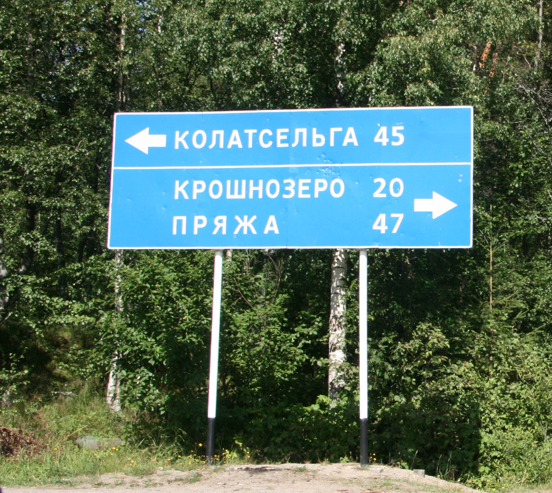 Vieljärvi in Karelia